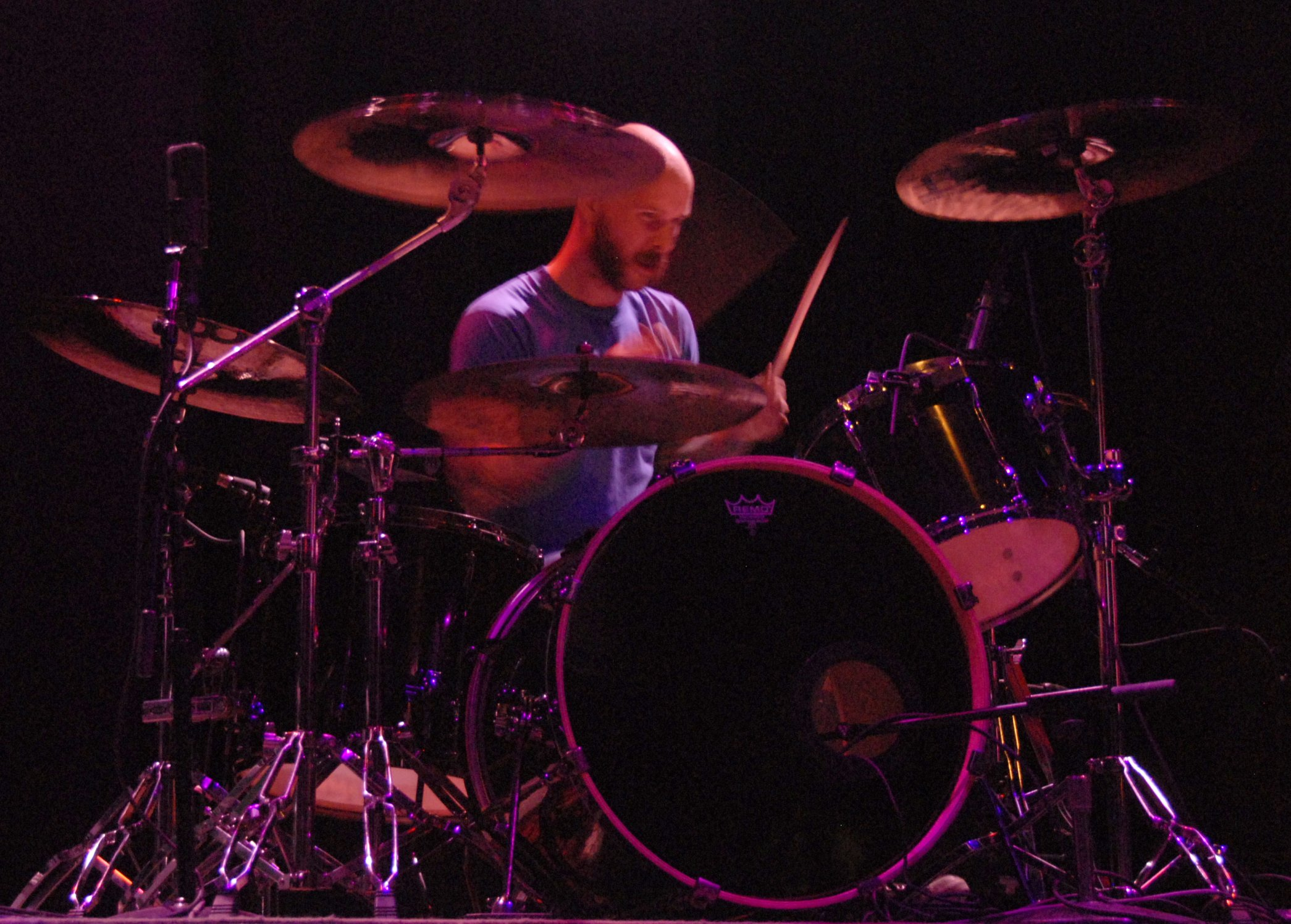 This is a picture of Kevin Fender, drummer for the metal band The Sword, playing at the 9:30 Club in Washington DC on Monday 6 December 2010. It was shot on a Nikon D200 with a Nikkor 18-200mm lens. I (Wikipedia user OzzyRules) shot this photo and give Wikipedia express permission to use this image on any part of any of it's websites. You can find where I uploaded this image to Flickr here.